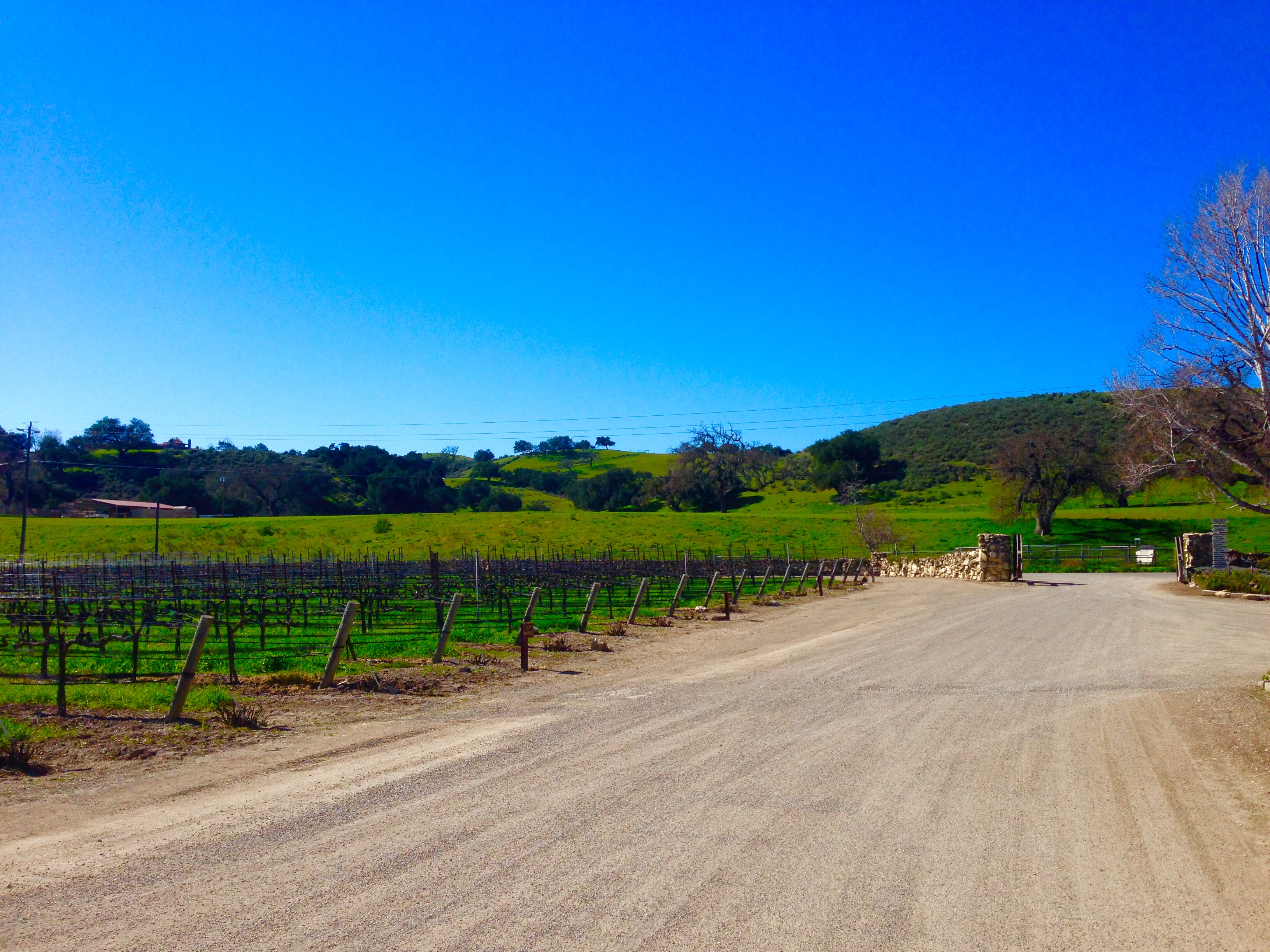 The Vineyards of Sunstone Winery in the Santa Ynez Valley. Taken on limo trip with American Luxury Limousine in February, 2013.